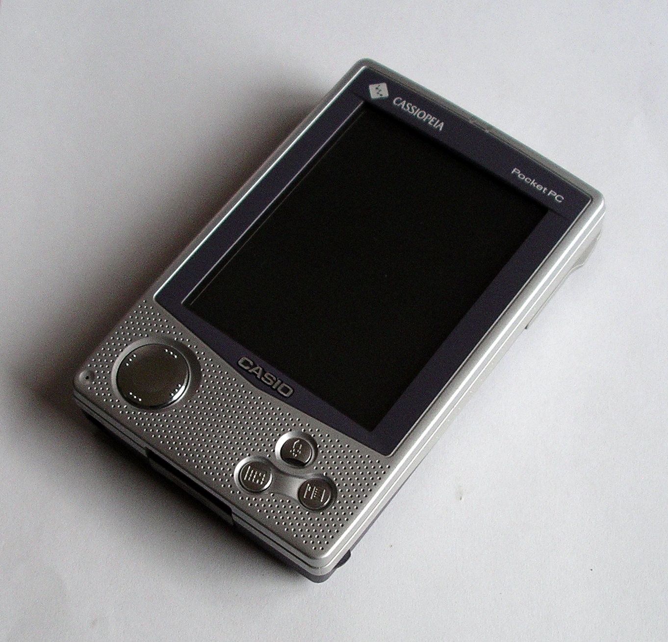 Photograph of Cassiopeia E-125 palmtop taken on 26 December 2006